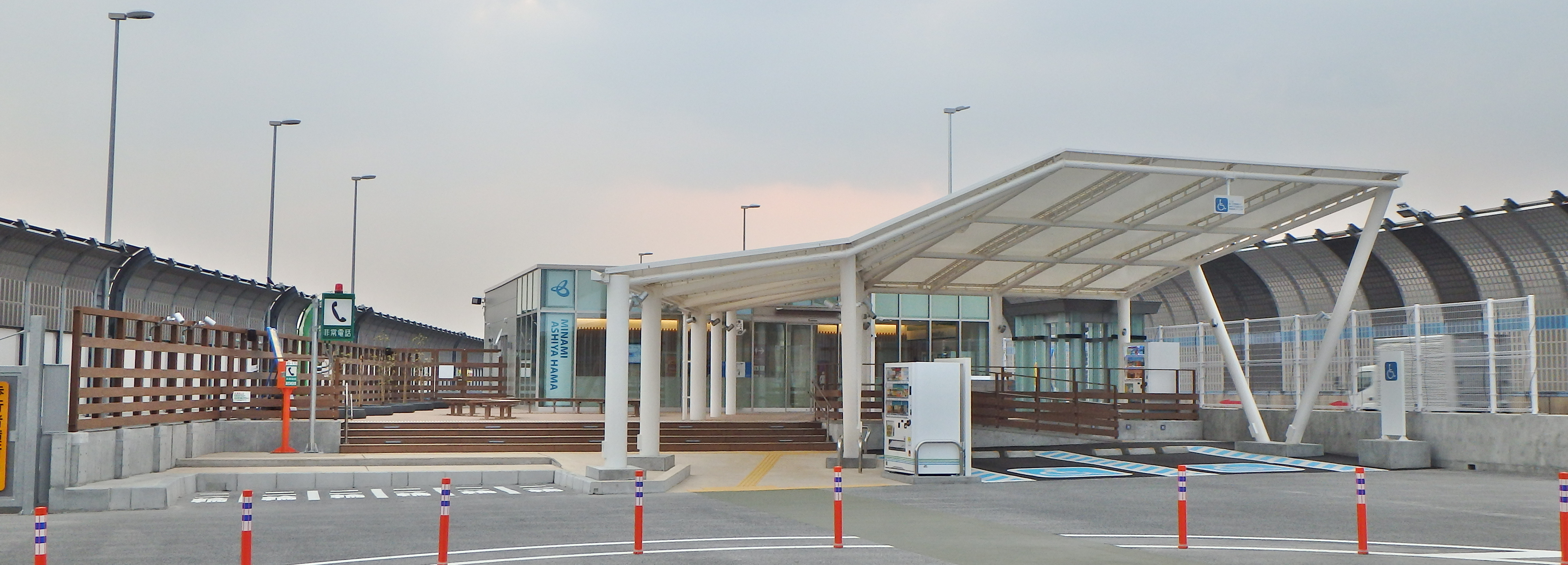 MinamiAshiyahama Parking Area, Hyogo prefecture,Japan